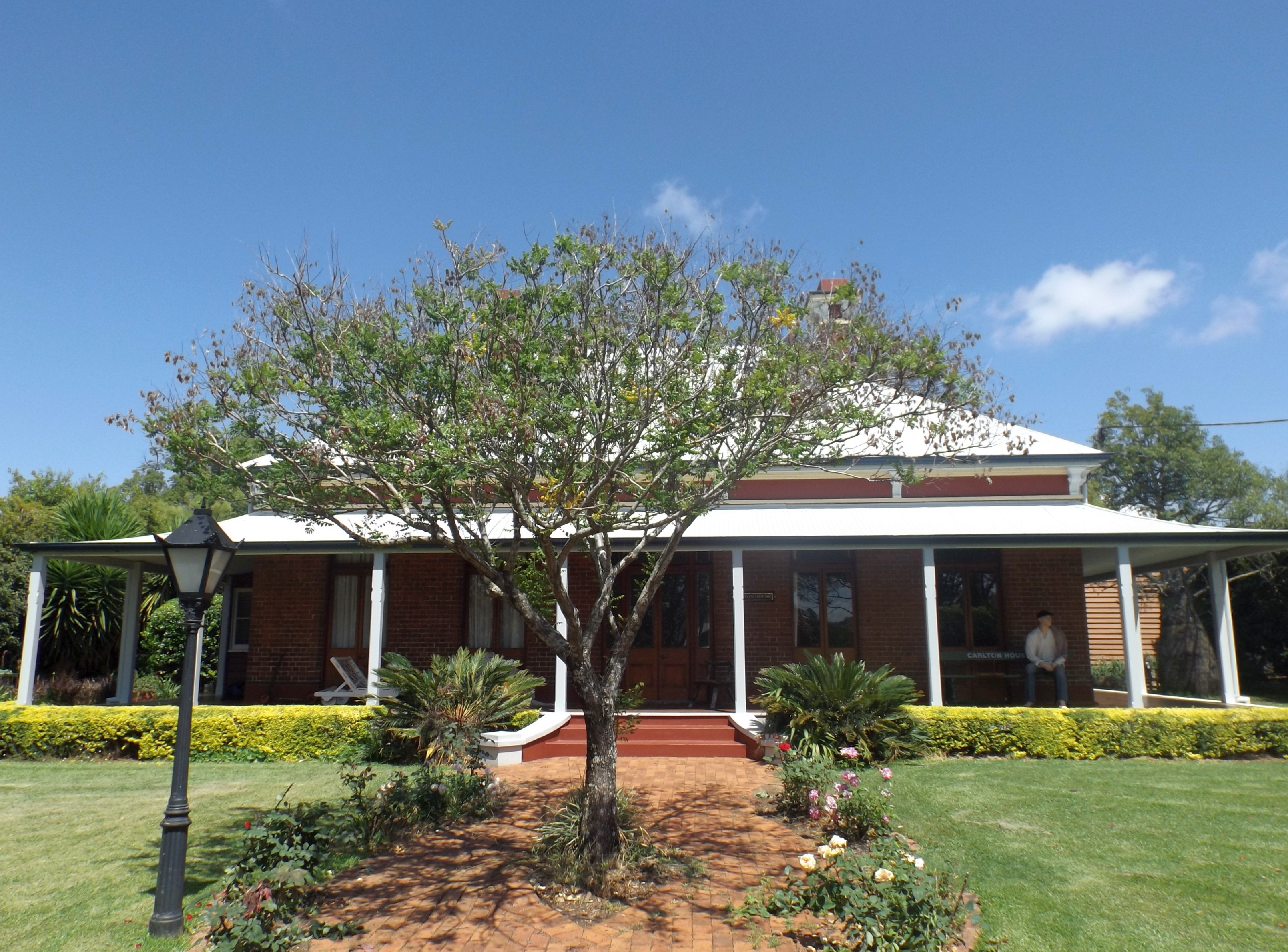 Photo of the front entrance to Carlton House in Toowoomba, Queensland, Australia.